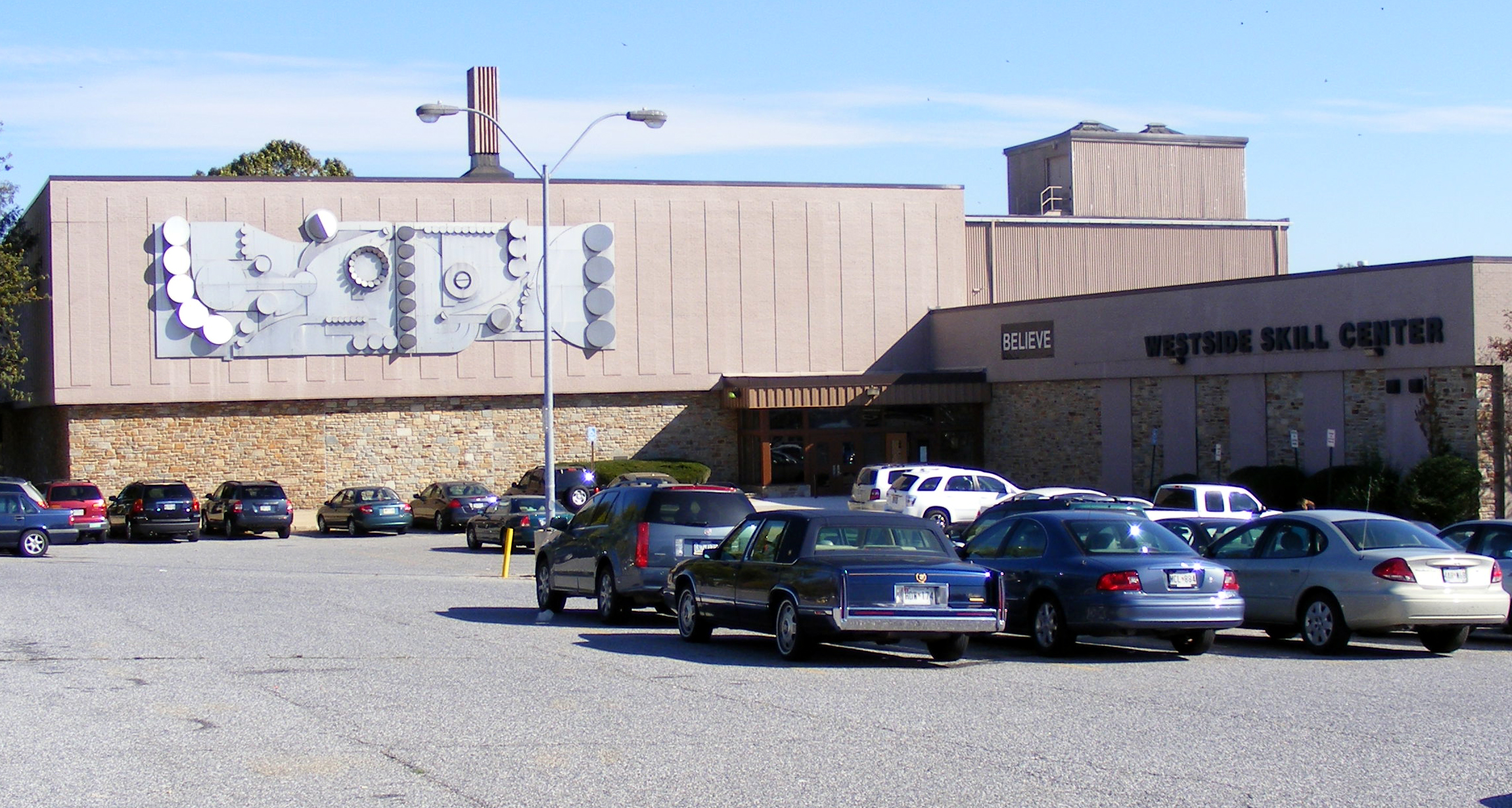 I took this picture in October of 2007, it is entirely my own work and I release it to the public domain. 67knight 14:00, 28 October 2007 (UTC)